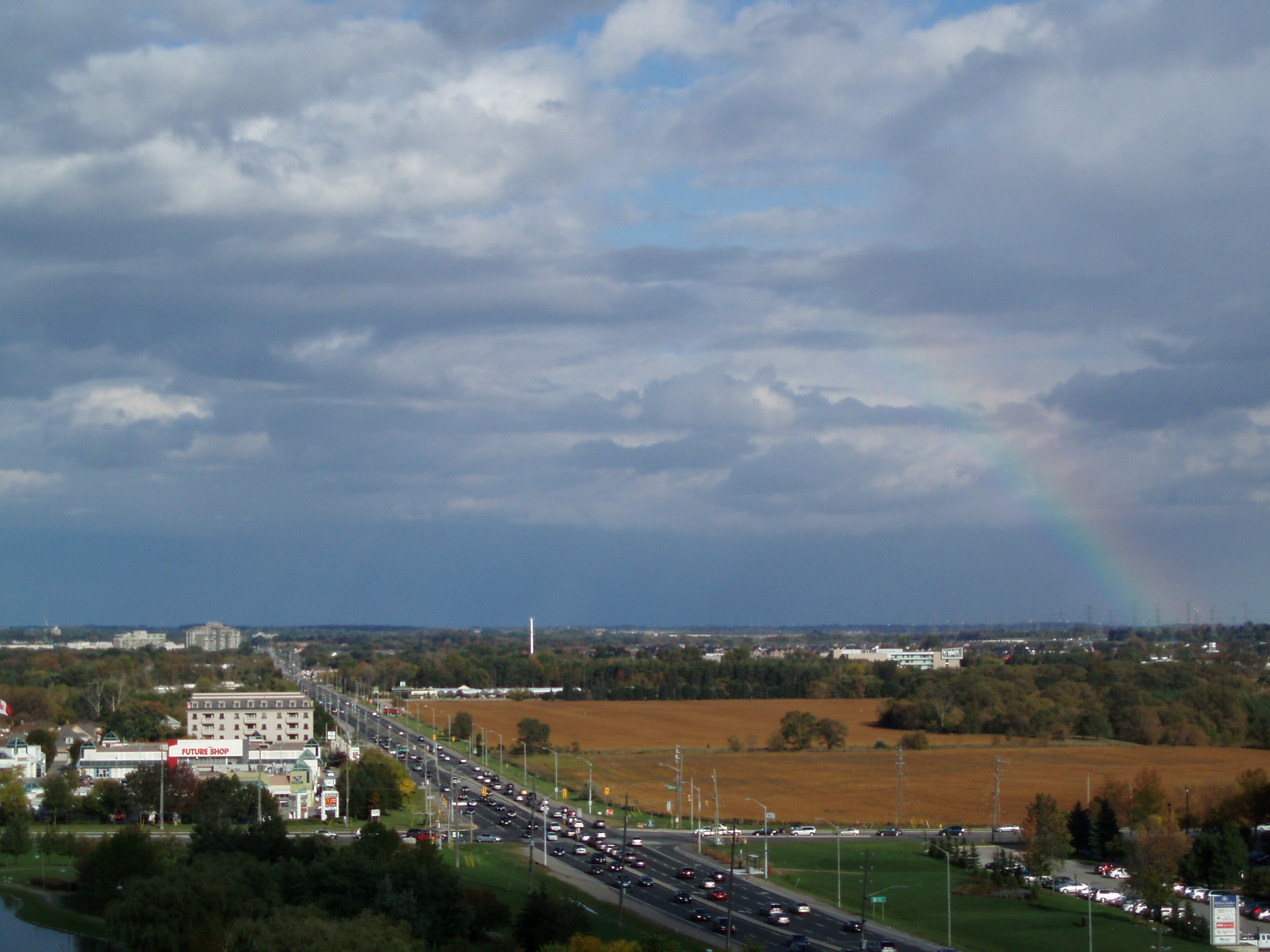 Uptown Markham (pre-construction) - 2008.